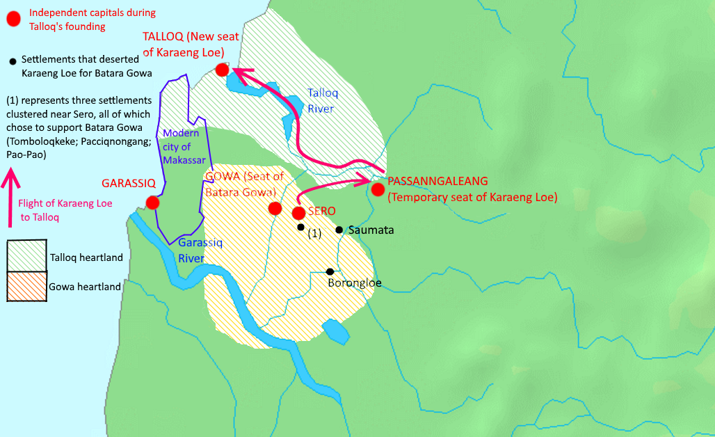 Founding of the Makassar kingdom of Talloq in the late 15th century. Basic map from DEMIS World Map server. Data from F. David Bulbeck's "Tale of Two Kingdoms: The Historical Archaeology of Gowa and Tallok" This image is in the public domain because it came from the site and was released by the copyright holder. Permission is granted to copy, distribute and/or modify this map since it is based on free of copyright images from: See also approval email on de.wp and its clarification. This work has been released into the public domain by its author, This applies worldwide.In some countries this may not be legally possible; if so: grants anyone the right to use this work for any purpose, without any conditions, unless such conditions are required by law.